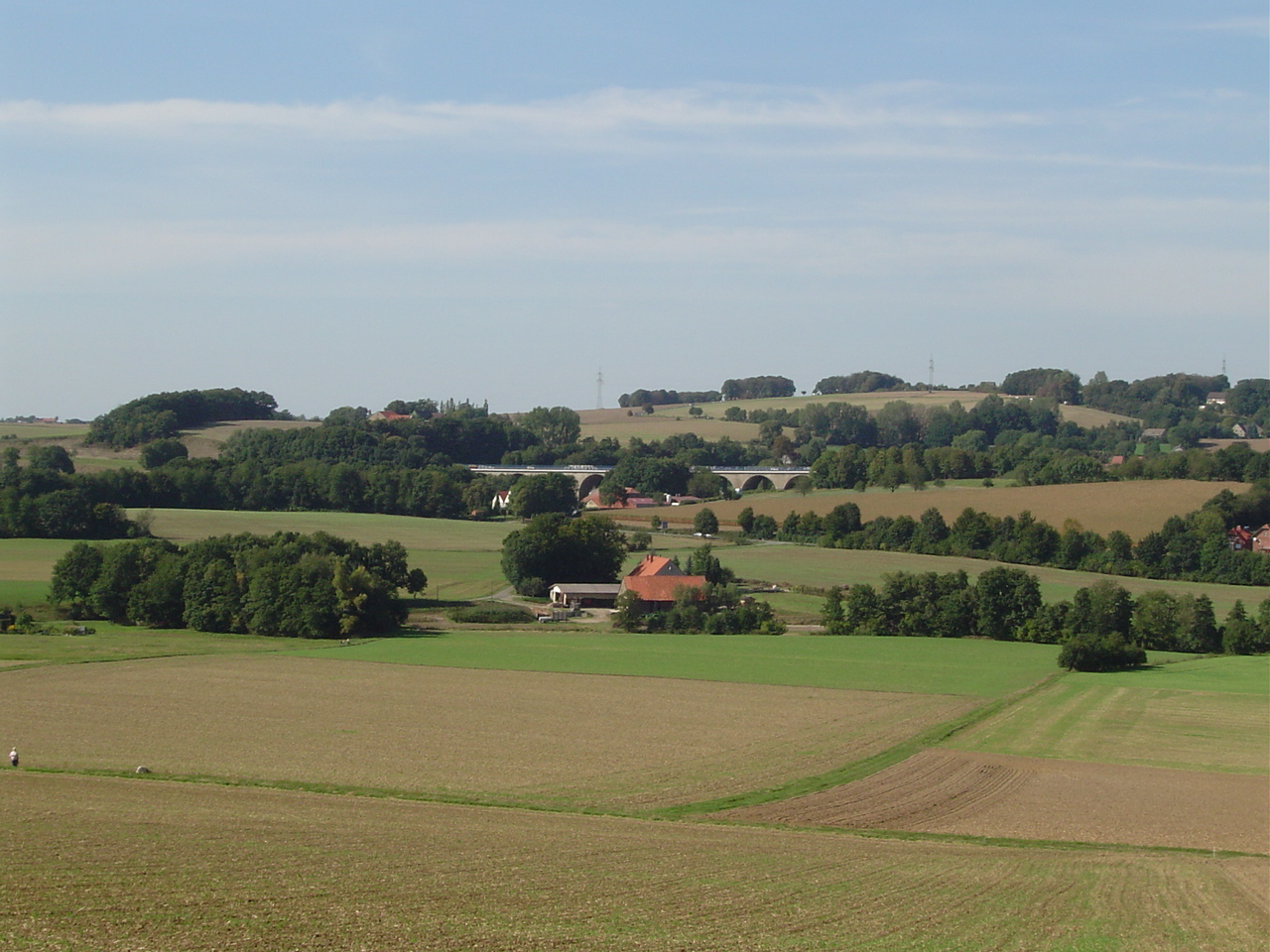 Rural scene in Exter, with the highway bridge visible.